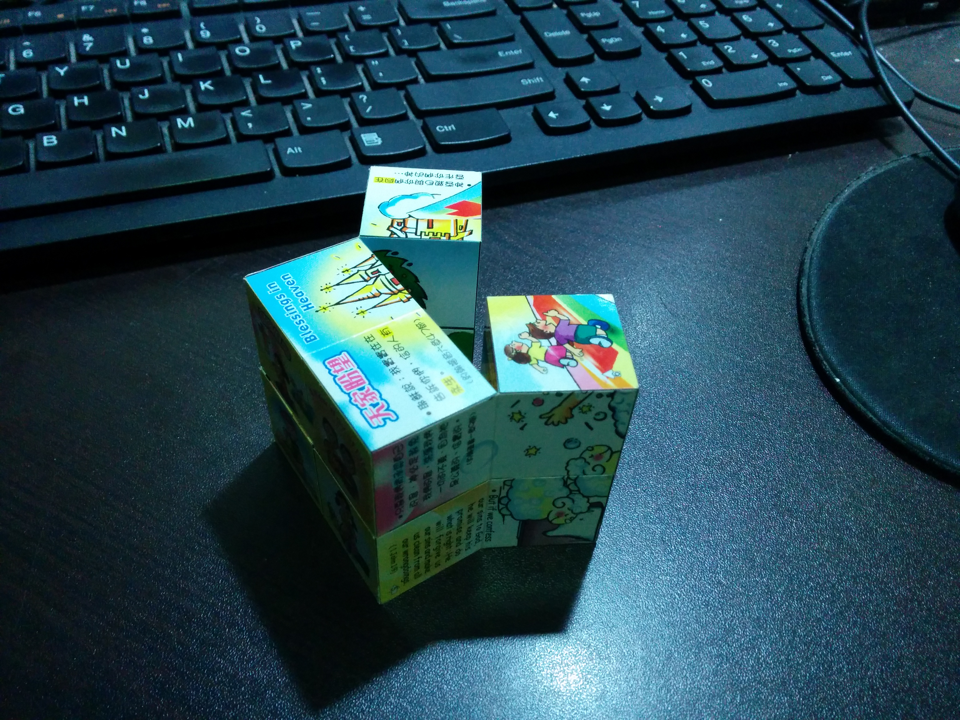 It is a toy of variation of 2*2 Rubik's Cube.